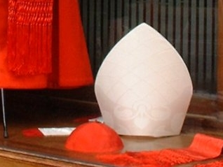 Traditional mitra simlex (white damask with white lappets ending in red fringes).